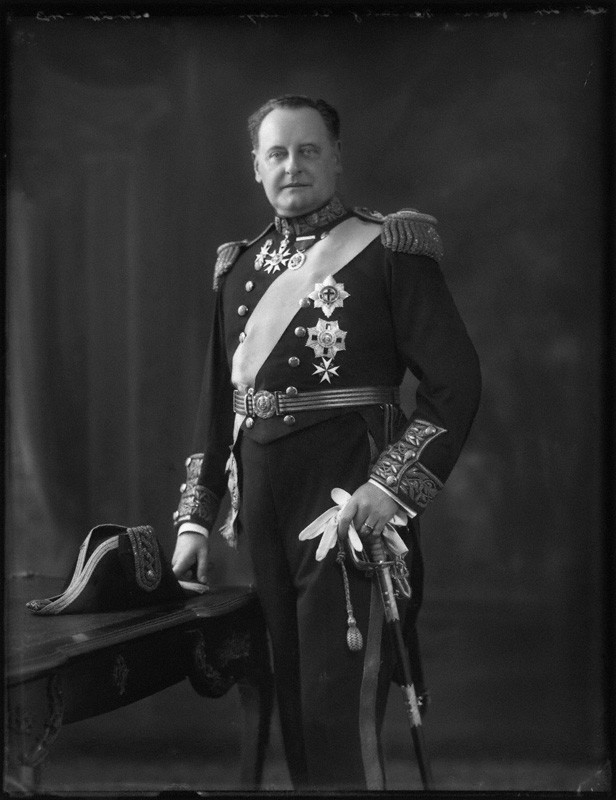 William Lygon, 7th Earl Beauchamp (1872-1938)